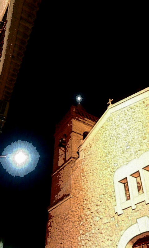 Torre de la Iglesia